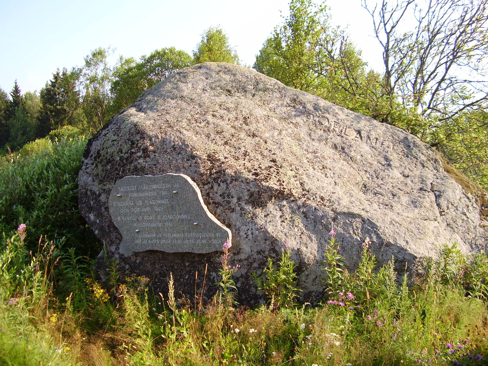 The Finnish infantry regiment monument of Sommeen along the road. There was the battle between the Finns and the Russians in the in 1941. When was born the Porlammen motti. The inscription reads, in Finnish, Swedish and